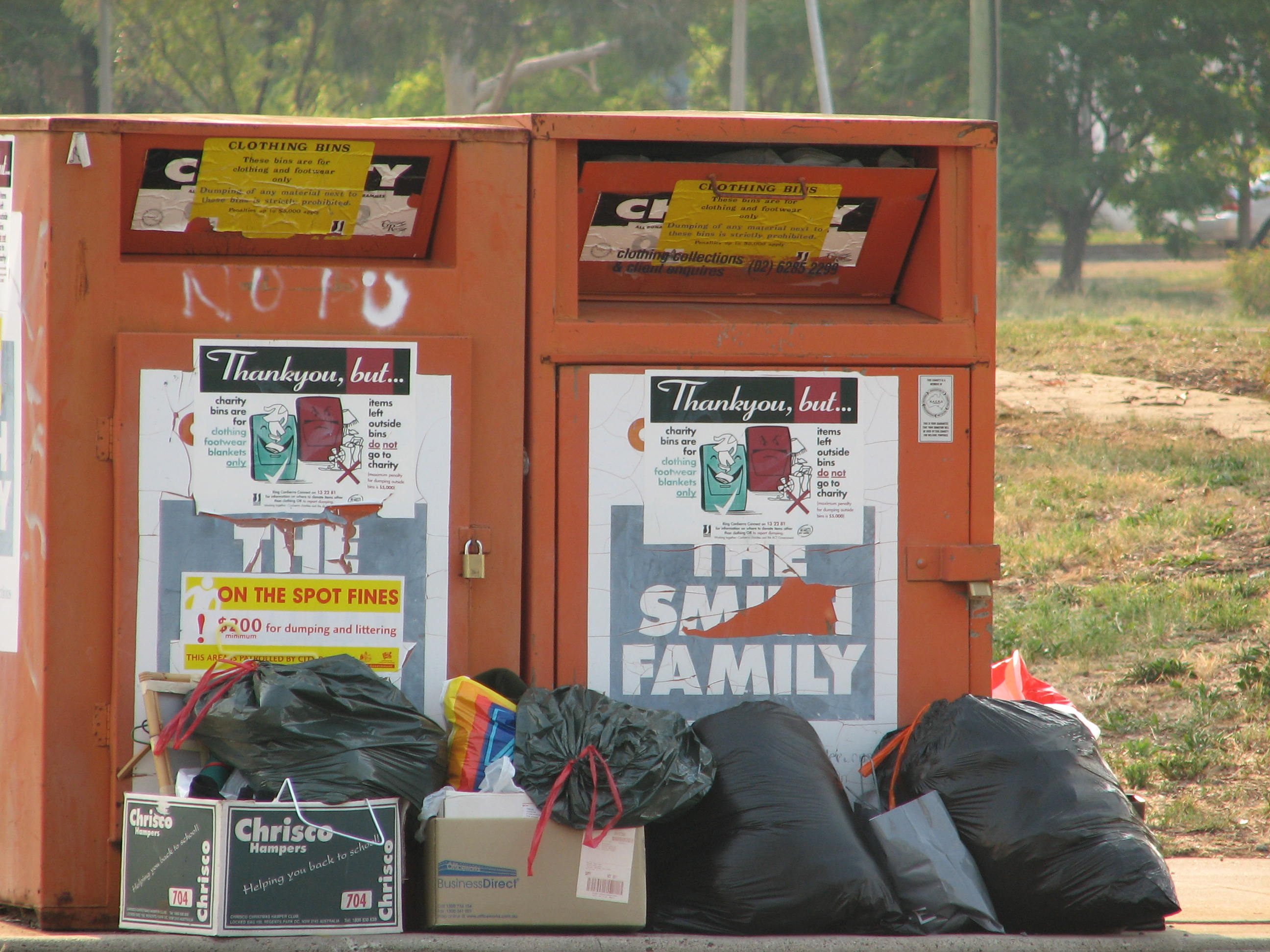 Smith Family clothing bins in Duffy, Australian Capital Territory.